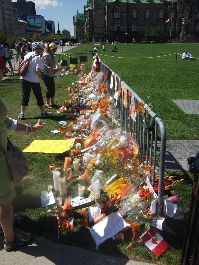 Summary: Makeshift memorial to Jack Layton, centennial flame in Ottawa